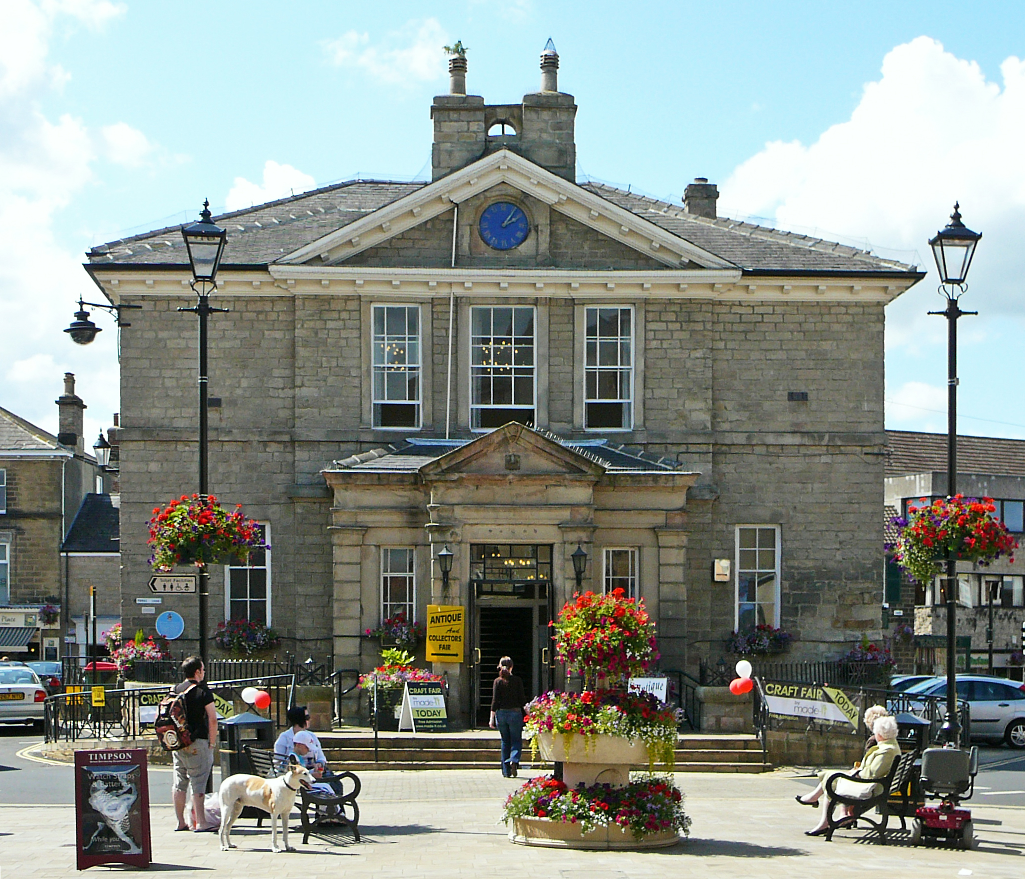 Wetherby Town Hall. Taken on Saturday the 25th of July 2009.